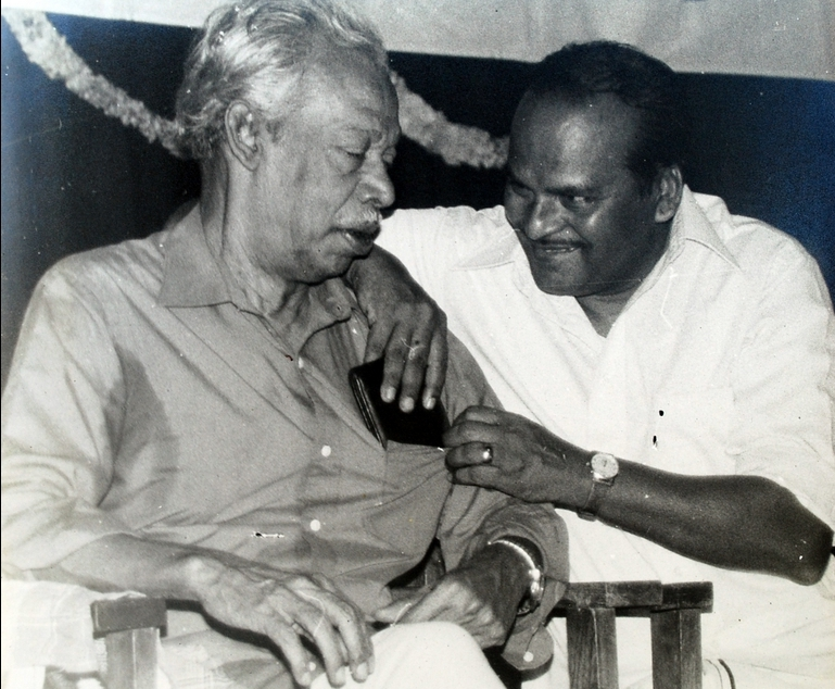 This media file is uploaded with India loves Wikipedia event. Kakkanadan WITH PERUMBADAVOM